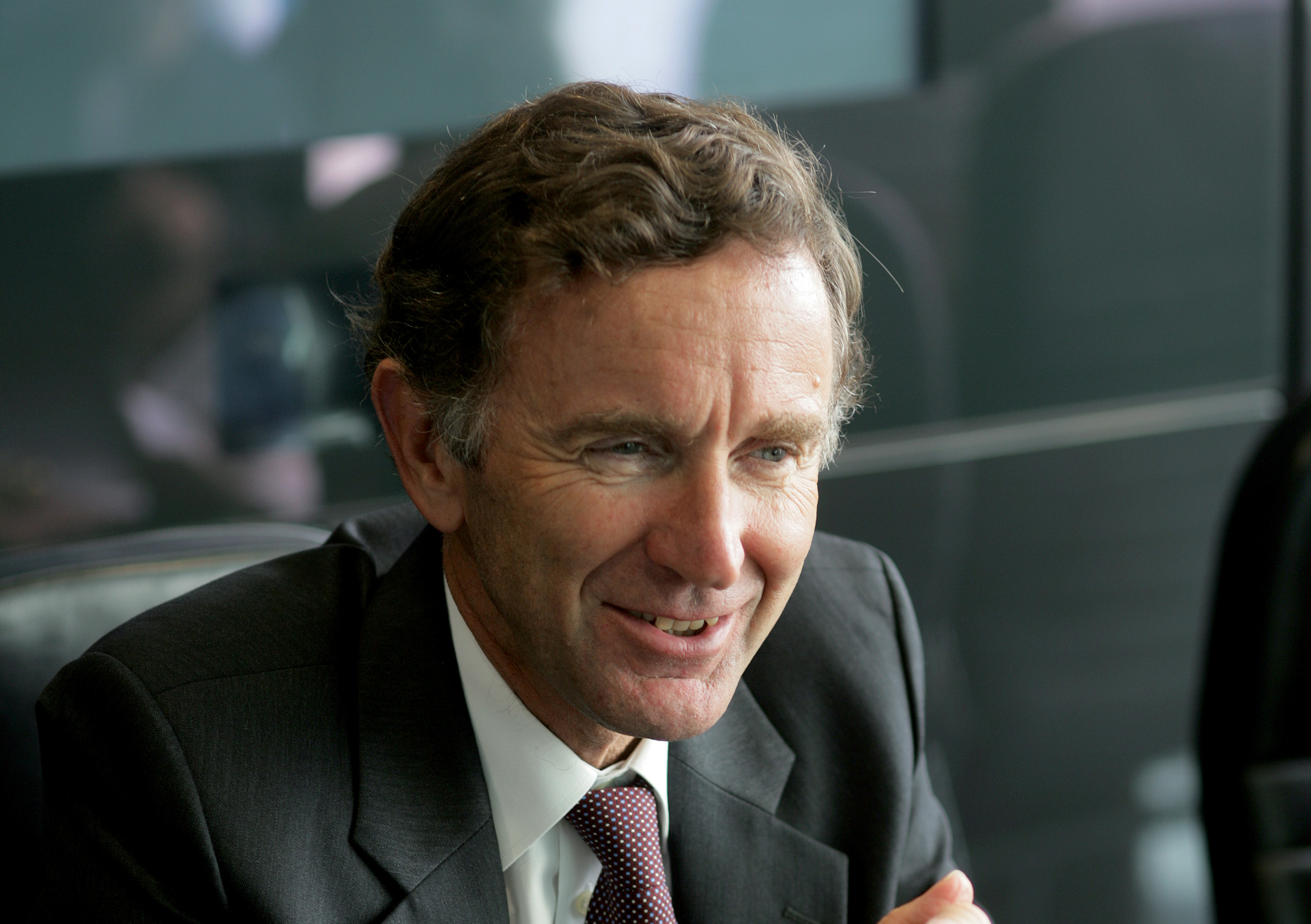 Stephen Green, British banker, Chairman of HSBC Holdings plc.